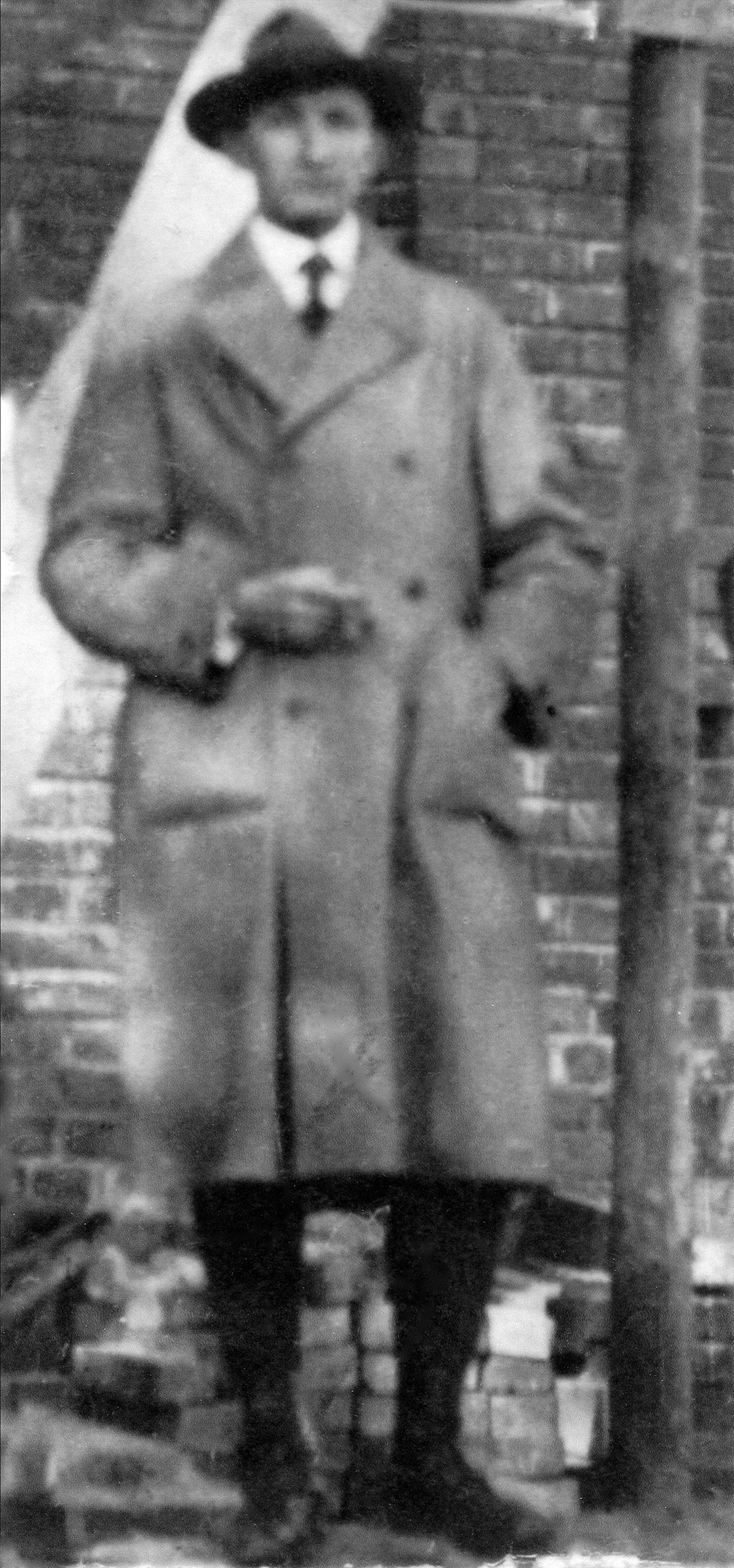 Ernst Karl Boy, 1920s